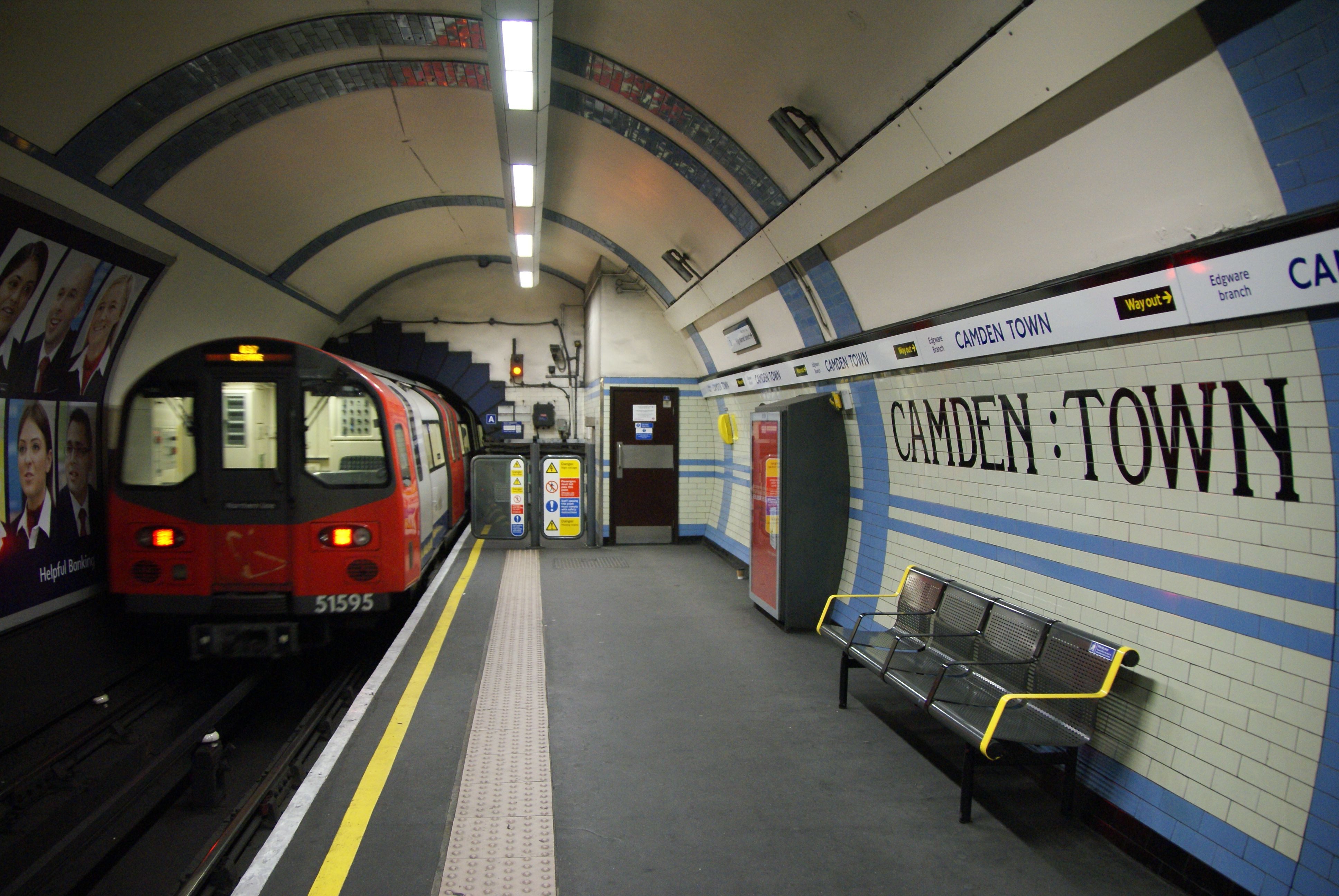 restored tiling on the platforms